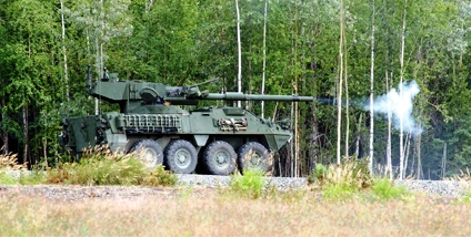 Soldiers are training and testing a new Stryker mounted cannon at Fort Wainwright this month. The 1st Stryker Brigade Combat Team, 25th Infantry Division, is the third Stryker brigade to receive the M-1128 Mobile Gun System.